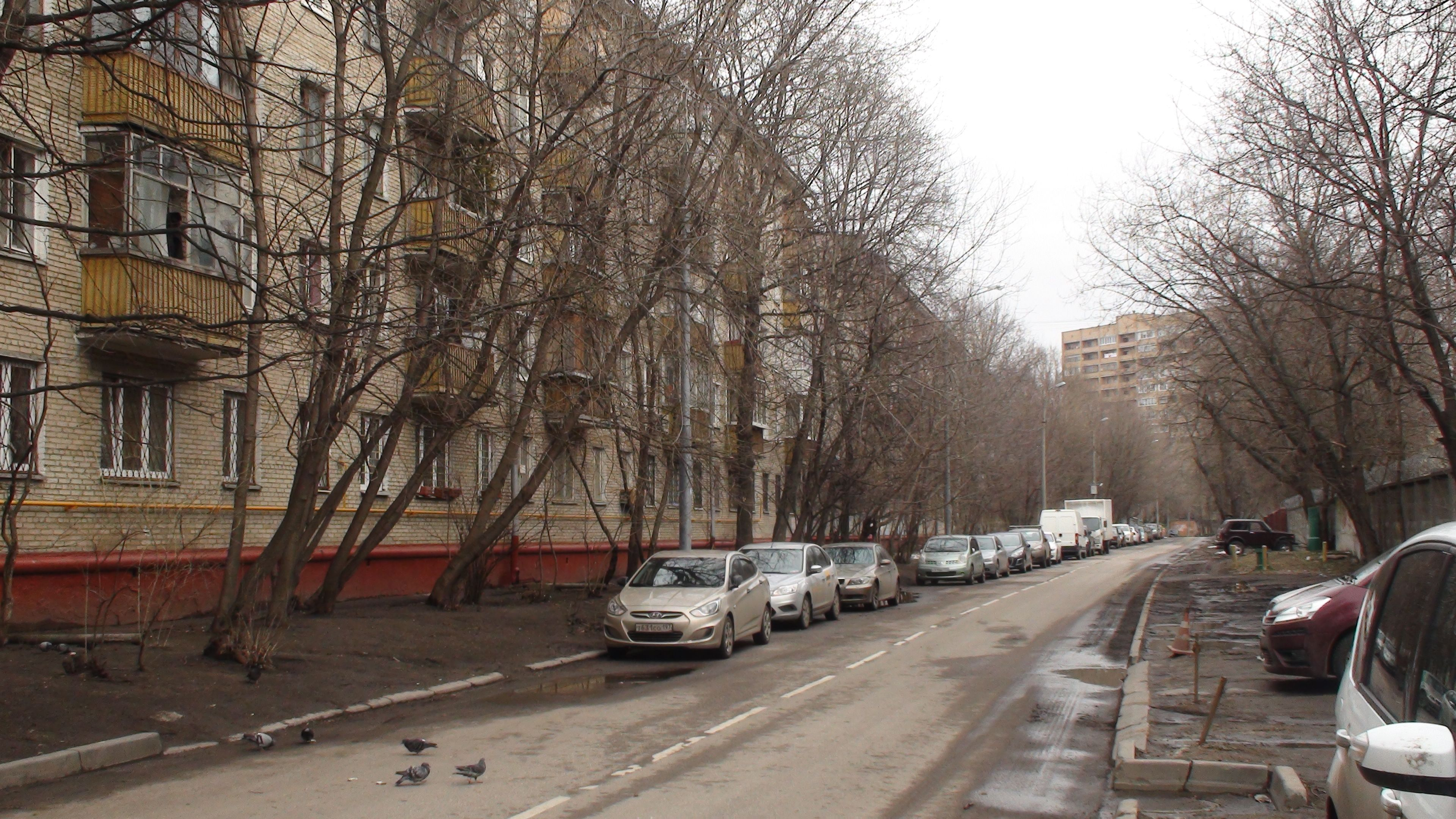 Novaia Platovka